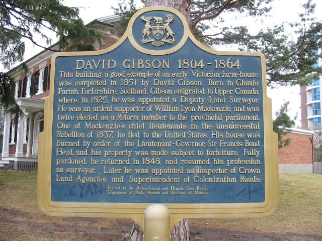 photographed by Alan Brown, and used here with permission.